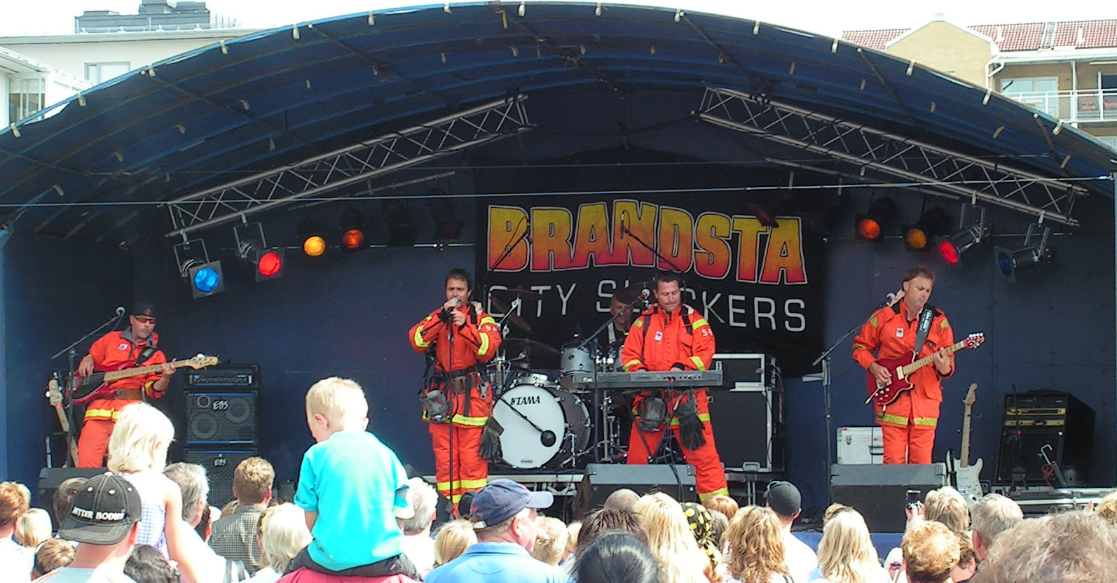 The swedish group Brandsta City Släckers plays at the festival Fallens Dagar in Trollhättan